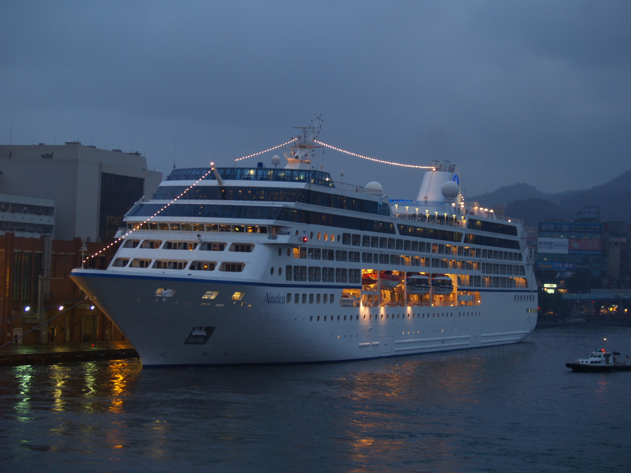 The following is the author's description of the photograph quoted directly from the photograph's Flickr page. "IMO number : 9200938 Name of ship : NAUTICA Call Sign : V7DM4 Gross tonnage : 30277 Type of ship : Passenger (Cruise) Ship Year of build : 2000 Flag : Marshall Islands Status of ship : In Service "